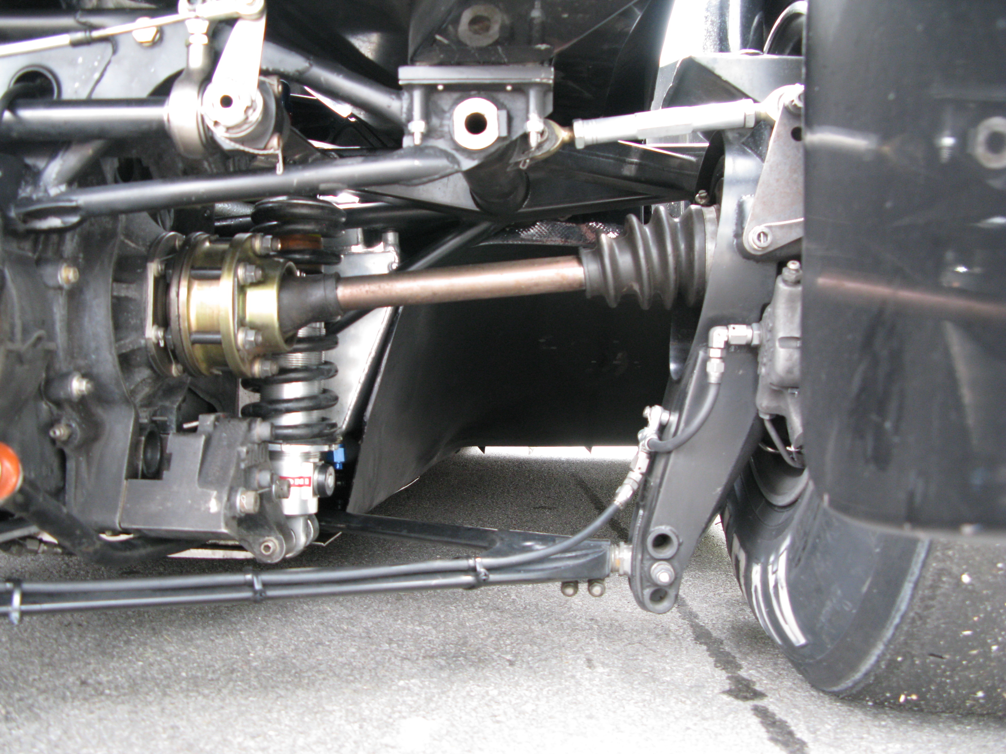 Looking up the venturi tunnels of a Lotus 79 Formula One car. Pictured in the paddock of the Sommet des Légends race meeting, Circuit Mont-Tremblant, Quebec, Canada. July 2009.